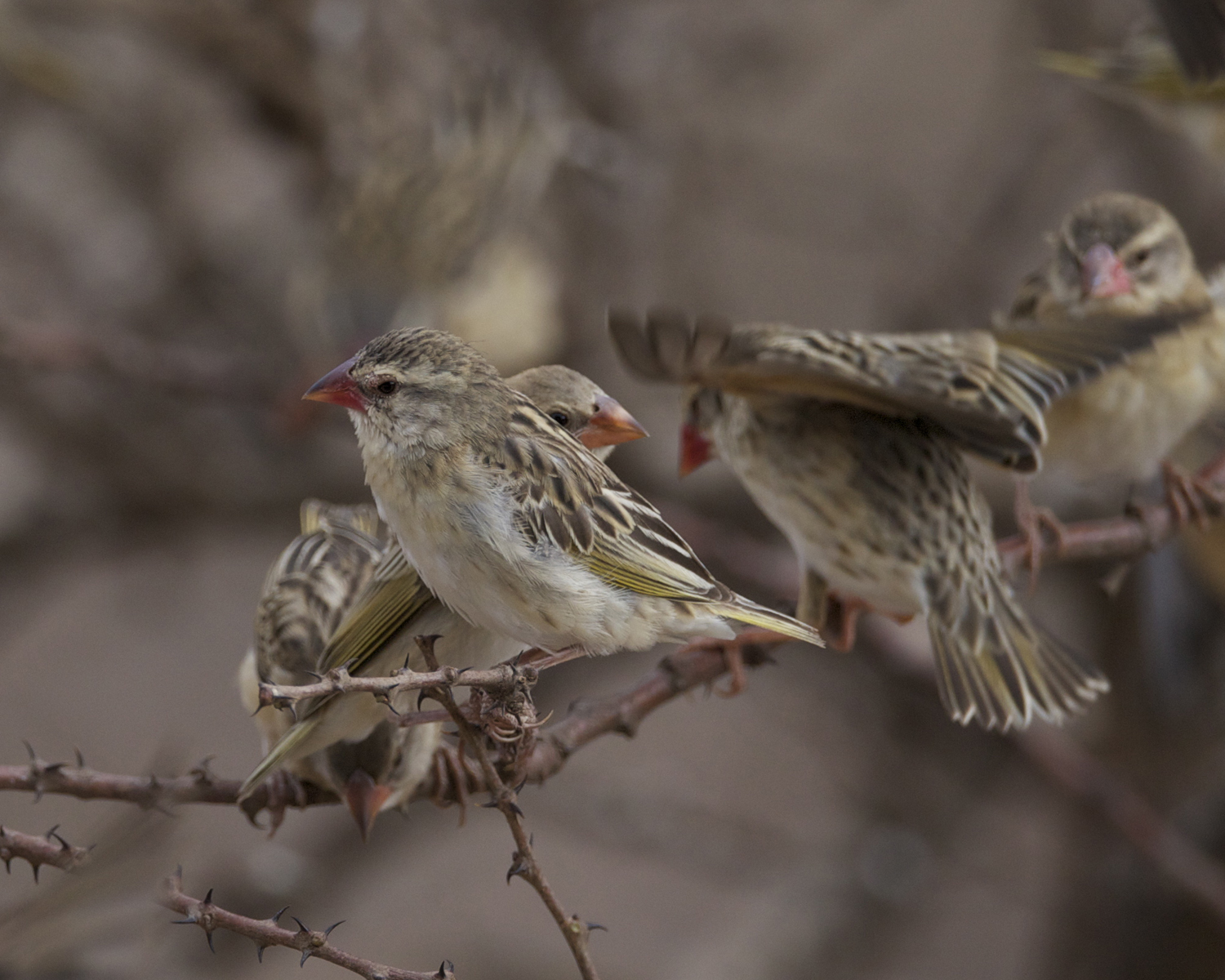 Red-billed Quelea Quelea quelea Kambi ya Tembo, Tanzania 2nd. September 2012 CF2P1350